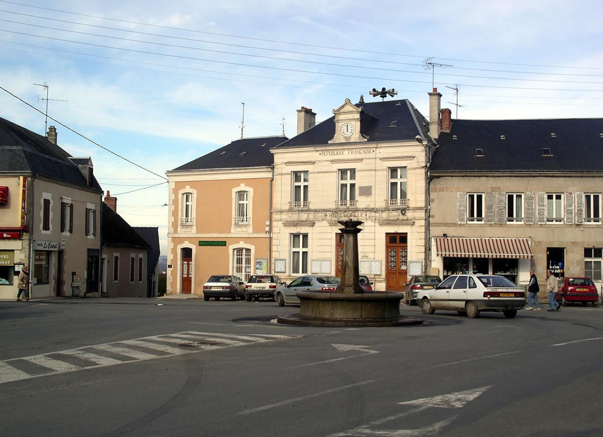 Centre of Bonnat town